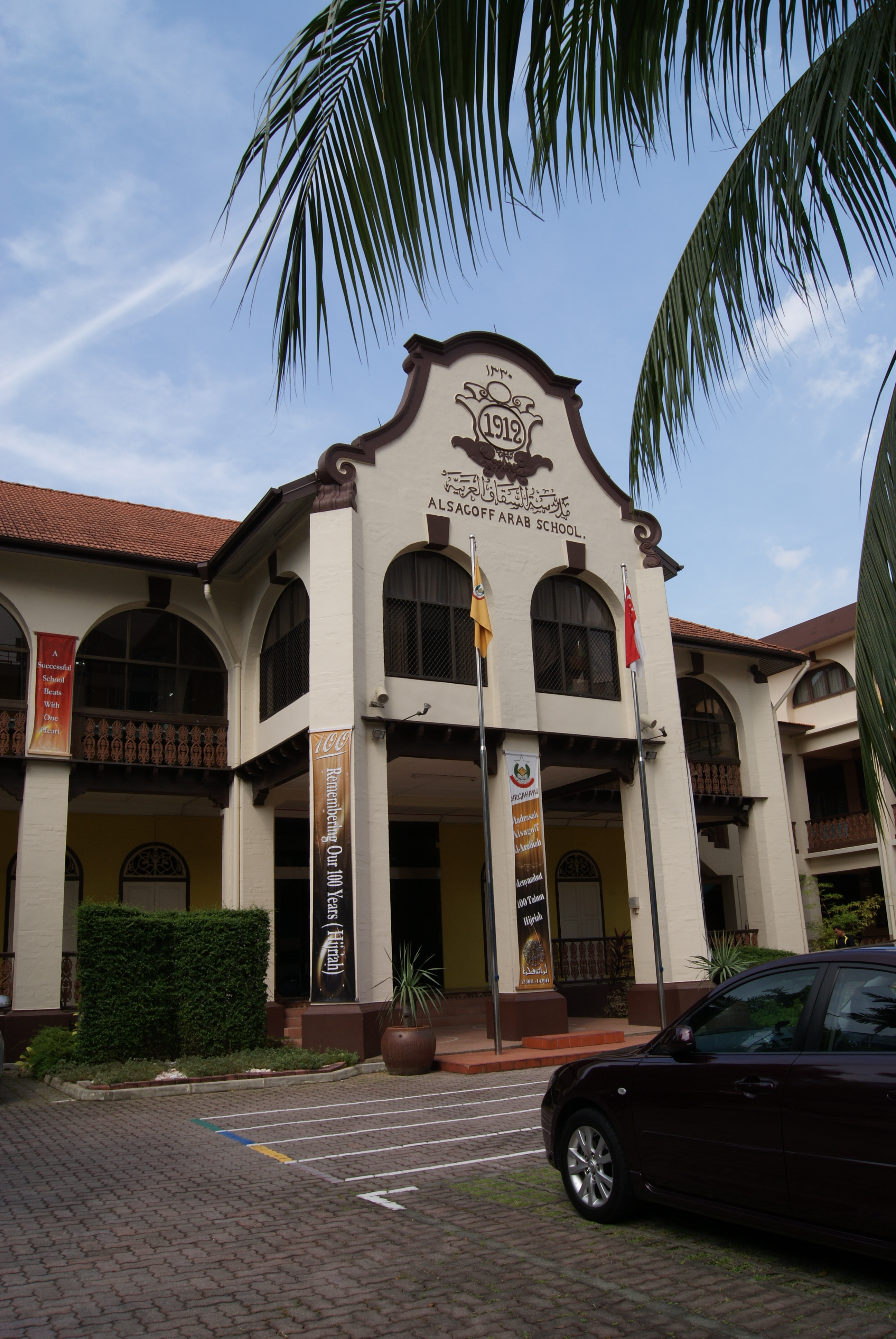 Madrasah Alsagoff al-Arabiah (Alsagoff Arab School) at 111 Jalan Sultan, Singapore. Established in 1912, it was the first madrasah (Islamic school) in Singapore.